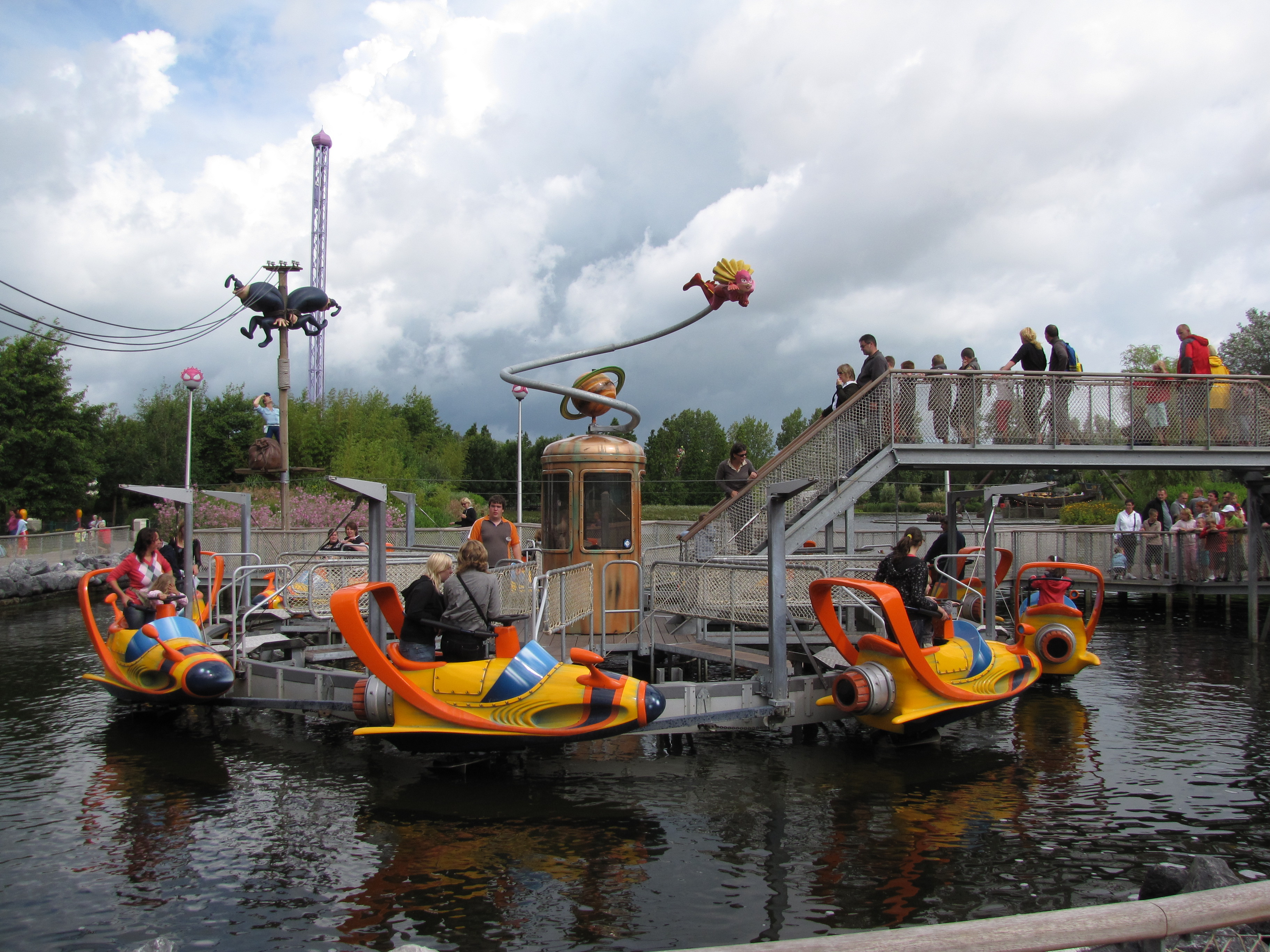 The Mega Mindy Jetski ride at Plopsaland De Panne (a Jet Skis ride from Zierer).